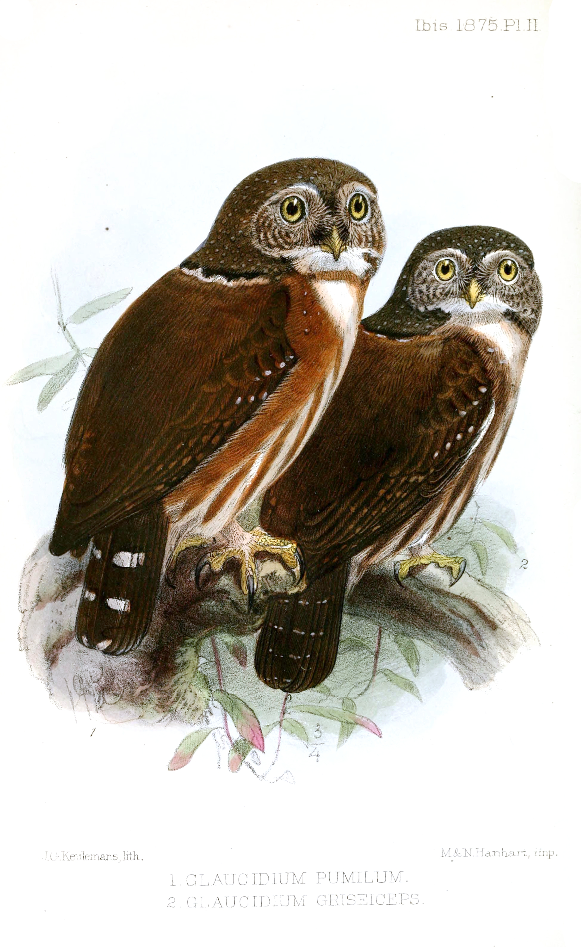 « Glaucidium pumilum » = Glaucidium minutissimum (East Brazilian Pygmy Owl) - synonymy to confirm « Glaucidium griseiceps » = Glaucidium griseiceps (Central American Pygmy Owl)